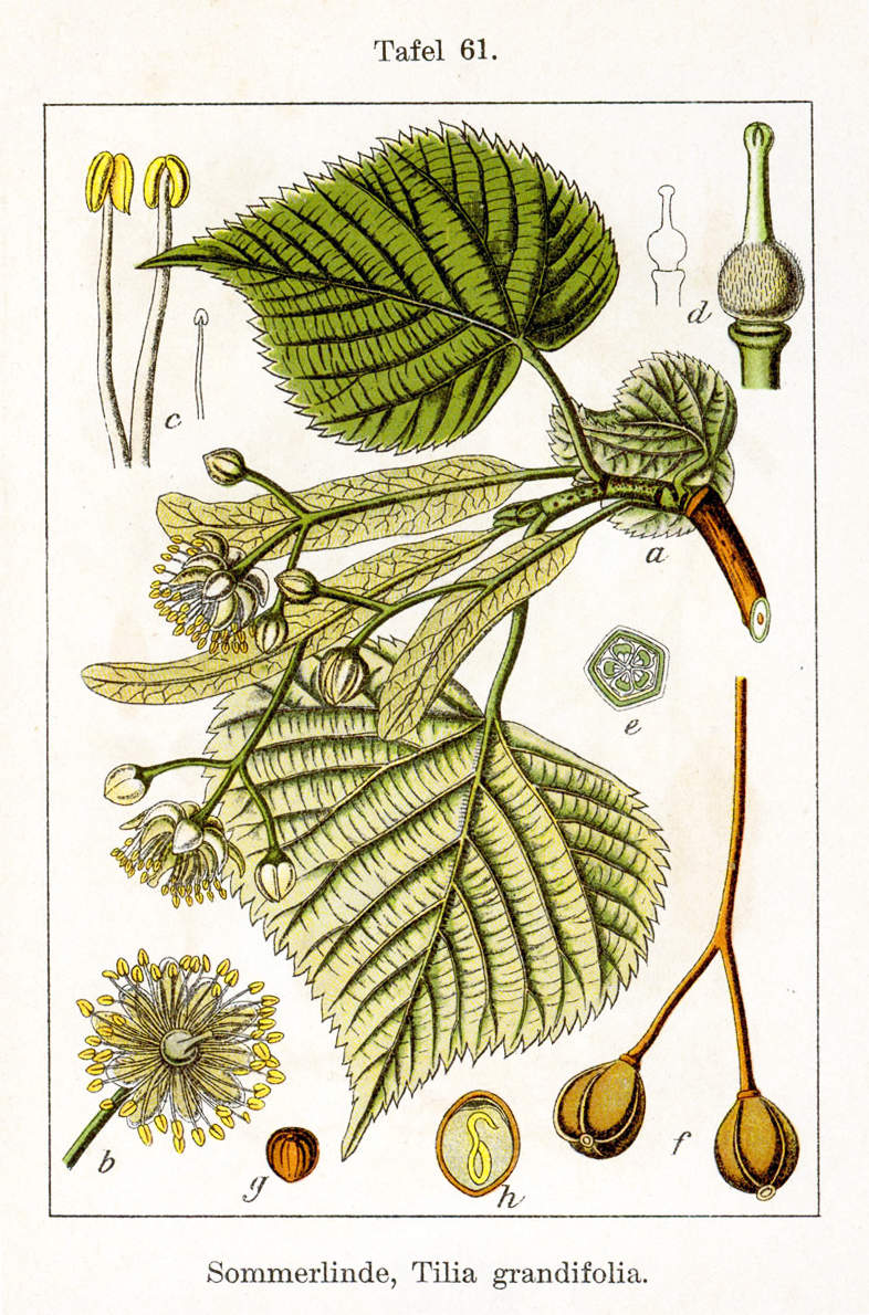 Tilia platyphyllos subsp. cordifolia (Besser) C.K.Schneid., syn. Tilia grandifolia Ehrh. ex W.D.J.Koch FloraWeb.de: Sommer-Linde, Tilia platyphyllos Scop. Original Description Sommerlinde, Tilia grandifolia